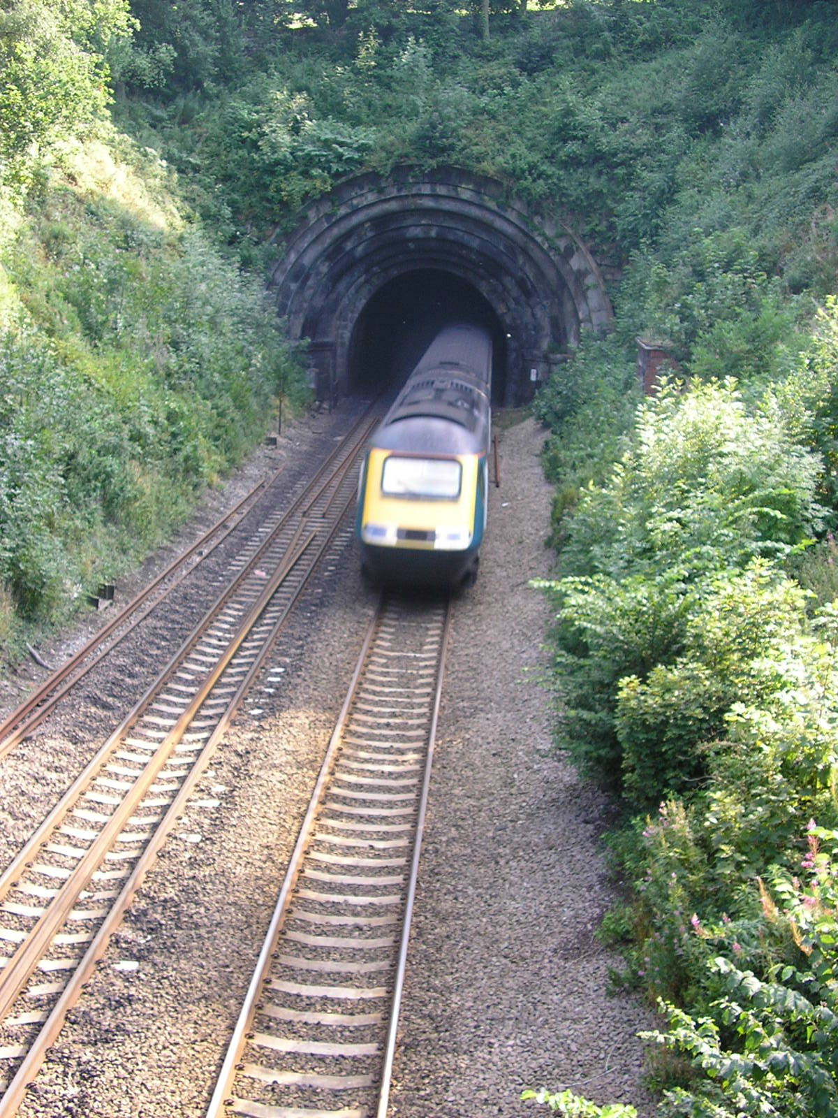 Description: Northern portal of Milford Tunnel